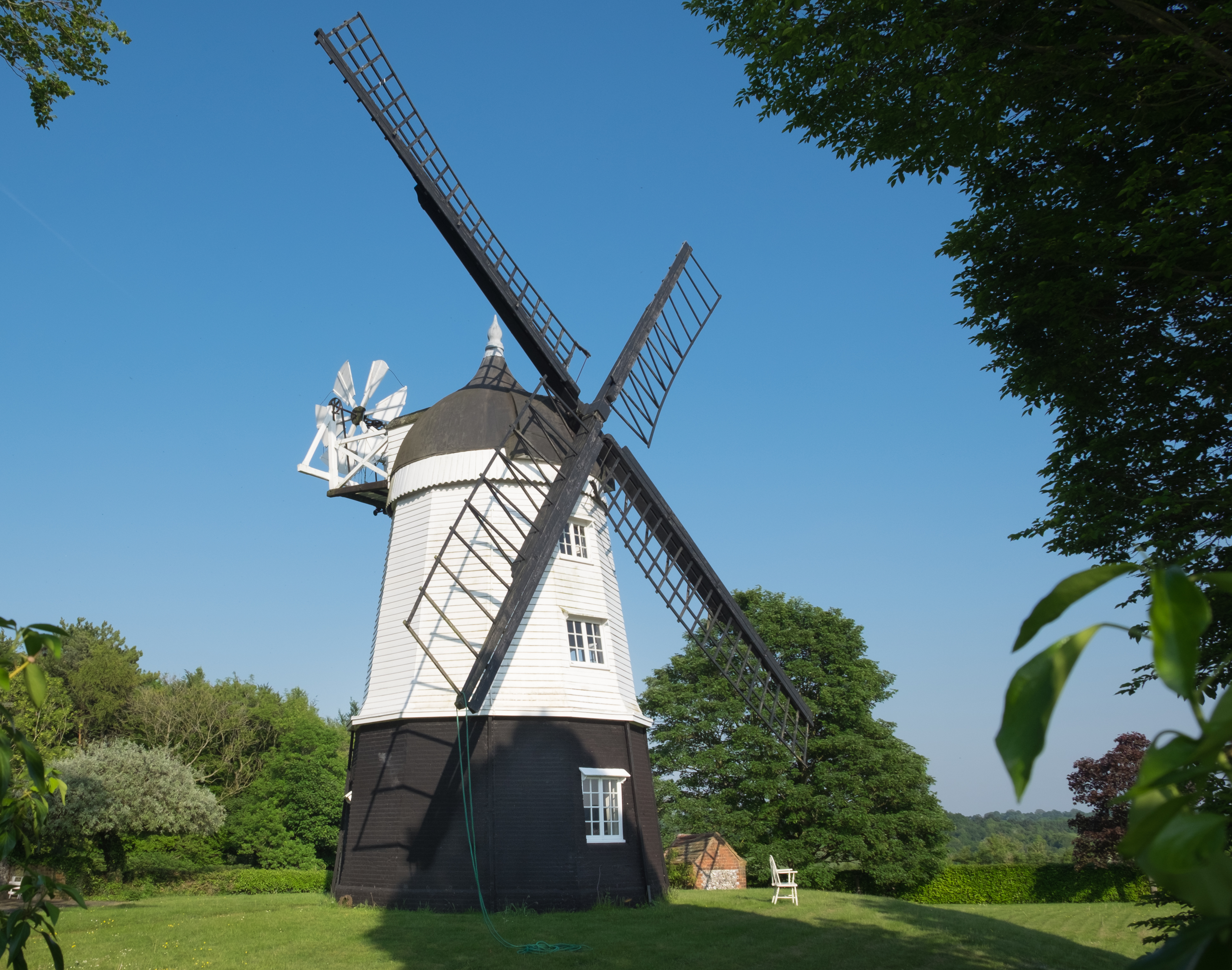 Cobstone Windmill, Ibstone, Buckinghamshire. This late 18th century smock mill (now converted into a house) is a grade II listed building in England.